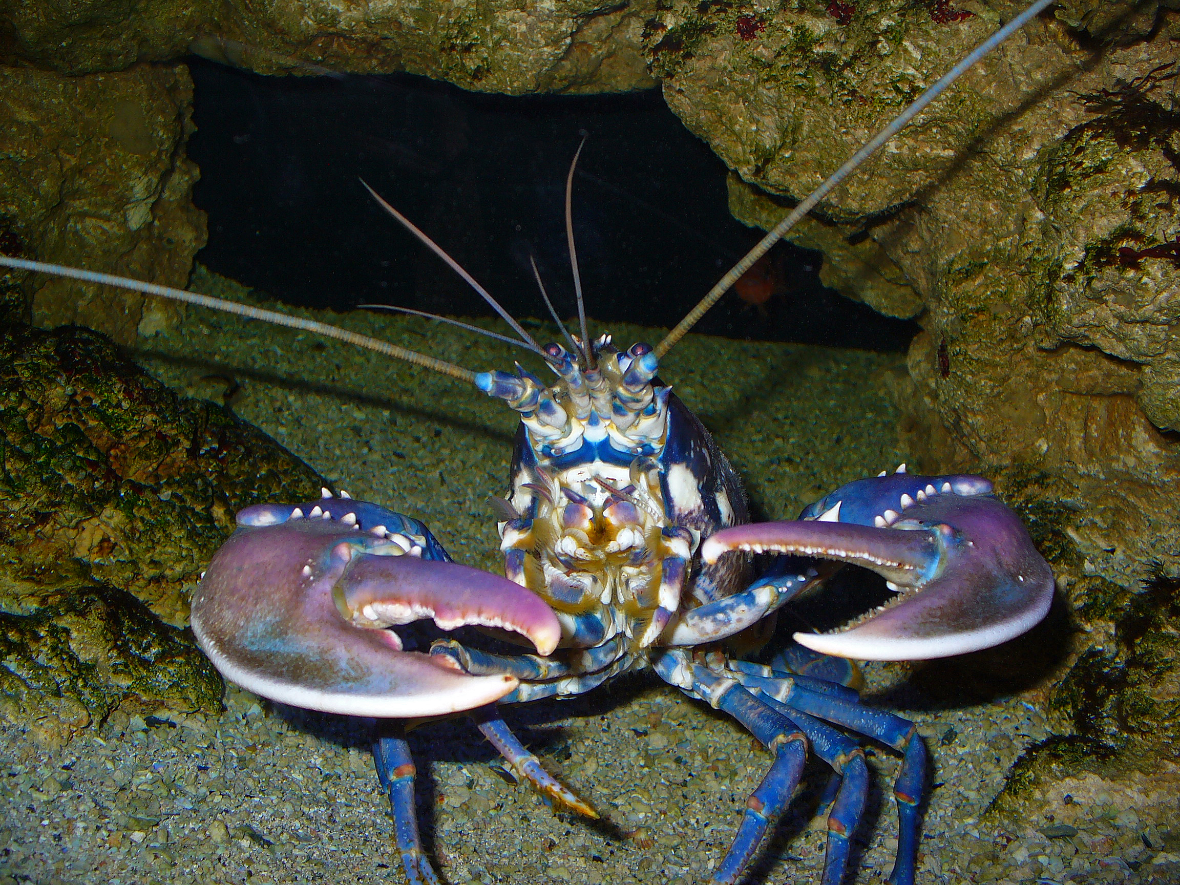 Homarus gammarus, Nephropidae, European Lobster; Staatliches Museum für Naturkunde Karlsruhe, Germany. The digestive juice is used in homeopathy as remedy: Homarus gammarus (Hom.)